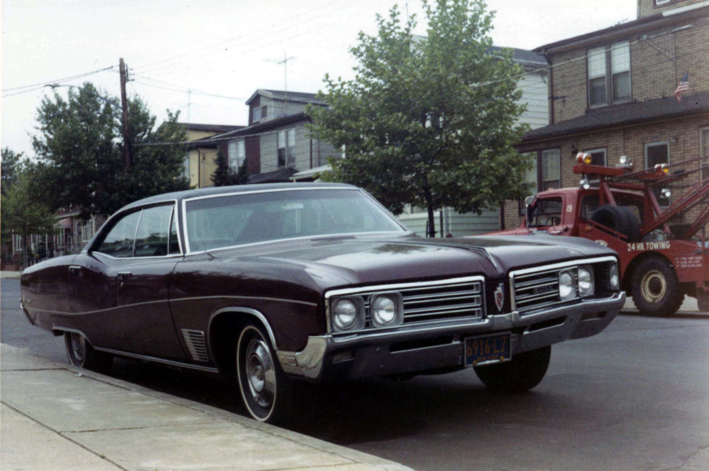 Taken May 1970 in Brooklyn, N.Y.